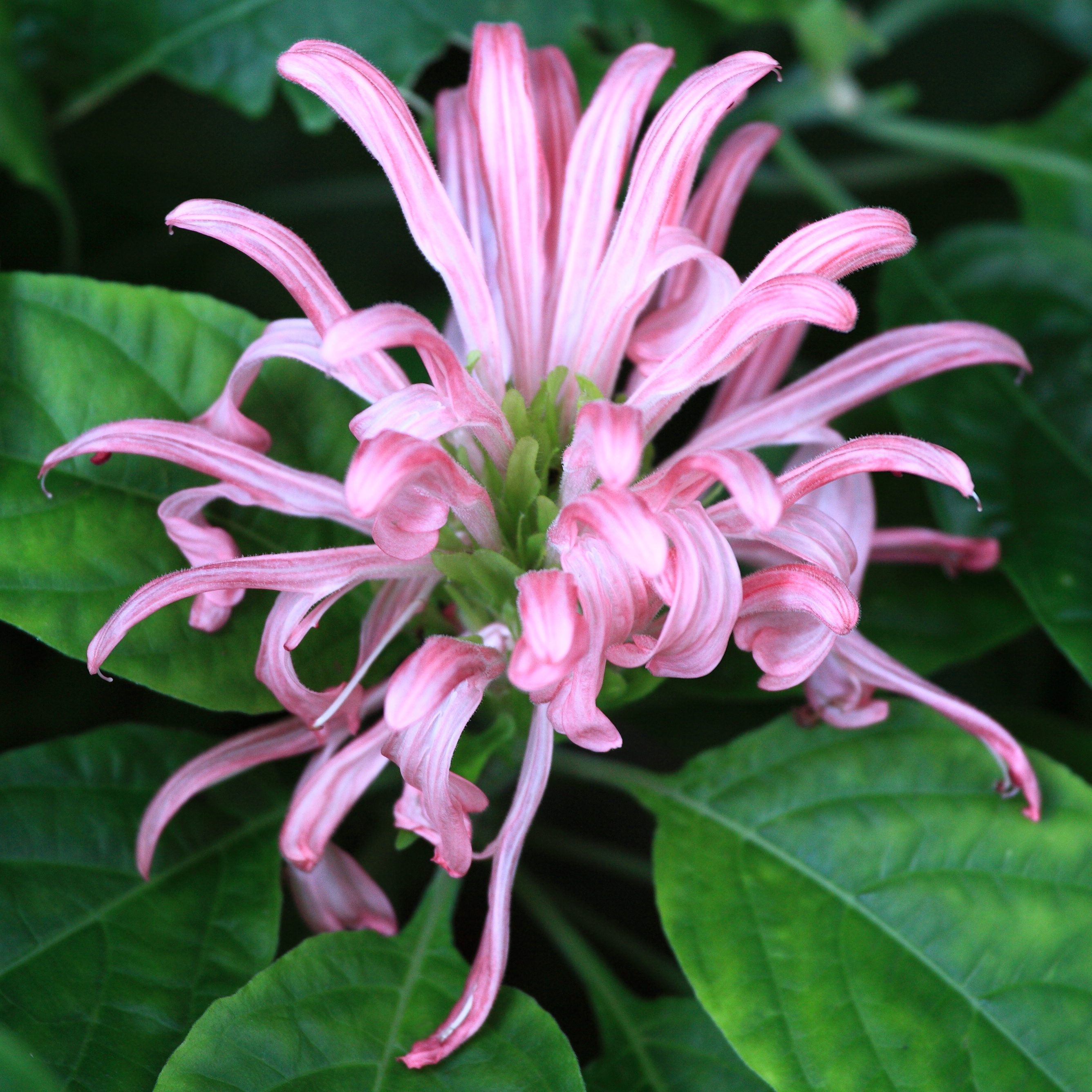 Ichikawa-shi(city) Botanical Garden, Ichikawa-shi(city) Chiba-ken(Prefecture), Japan 千葉県市川市(ちばけんいちかわし) 観賞植物園(かんしょうしょくぶつえん)